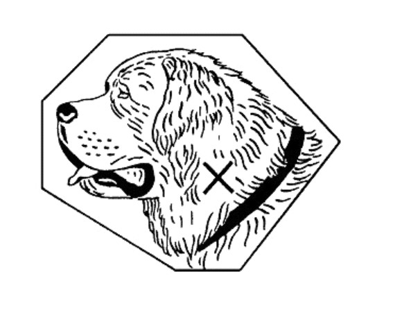 Head of a St. Bernhard dog, the official Swiss hallmark used for all percious metals and all fineness standards.